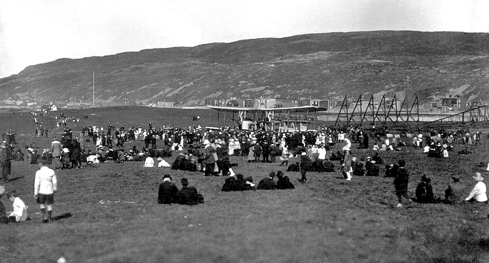 Alcock and Brown and spectators in St. John's, Newfoundland, 1919 Provincial Archives of Newfoundland and Labrador